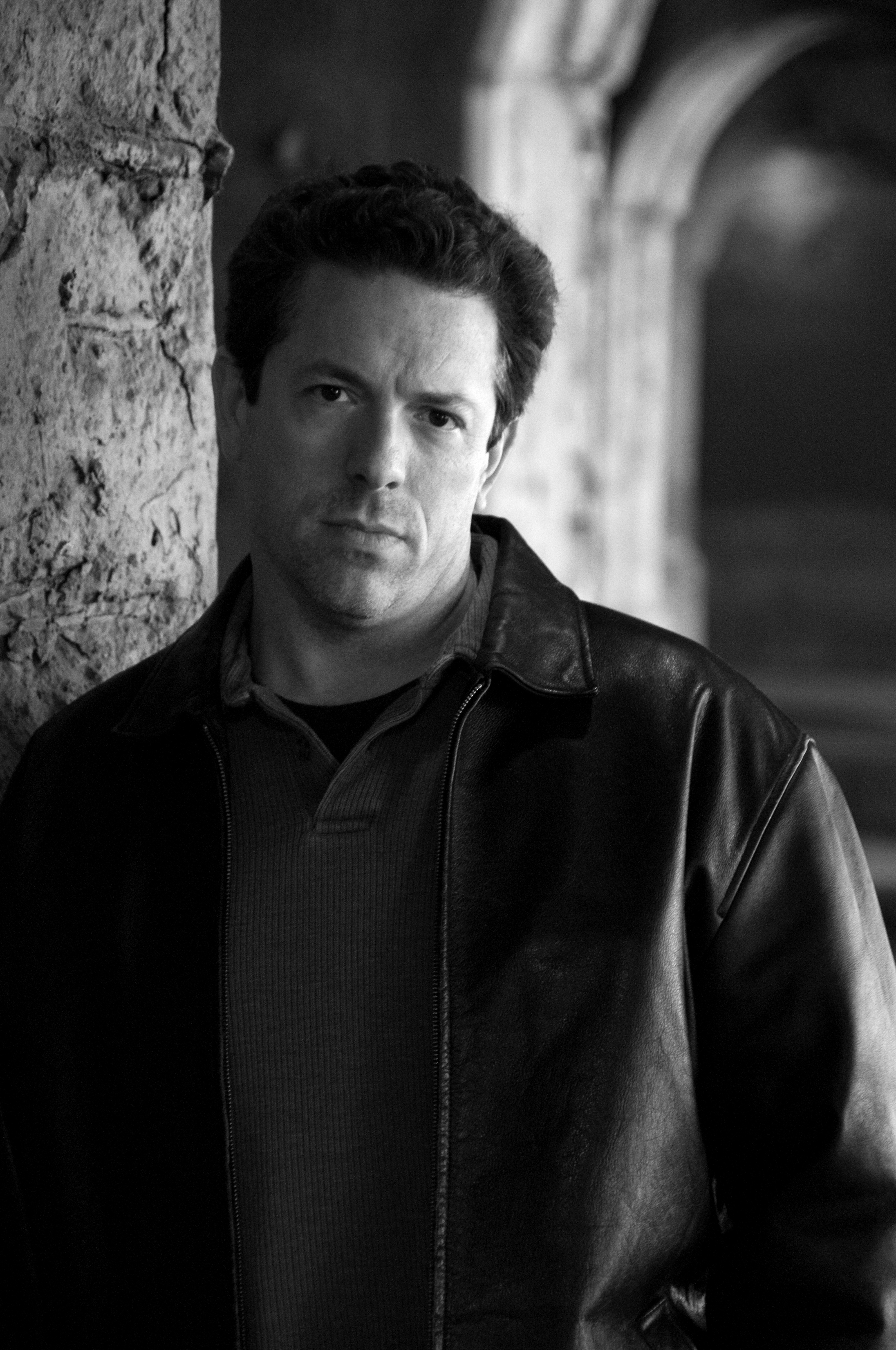 Author photo of Richard Thomas, 2010 ; Take in Wicker Park, IL under an overpass on Ogden Avenue.